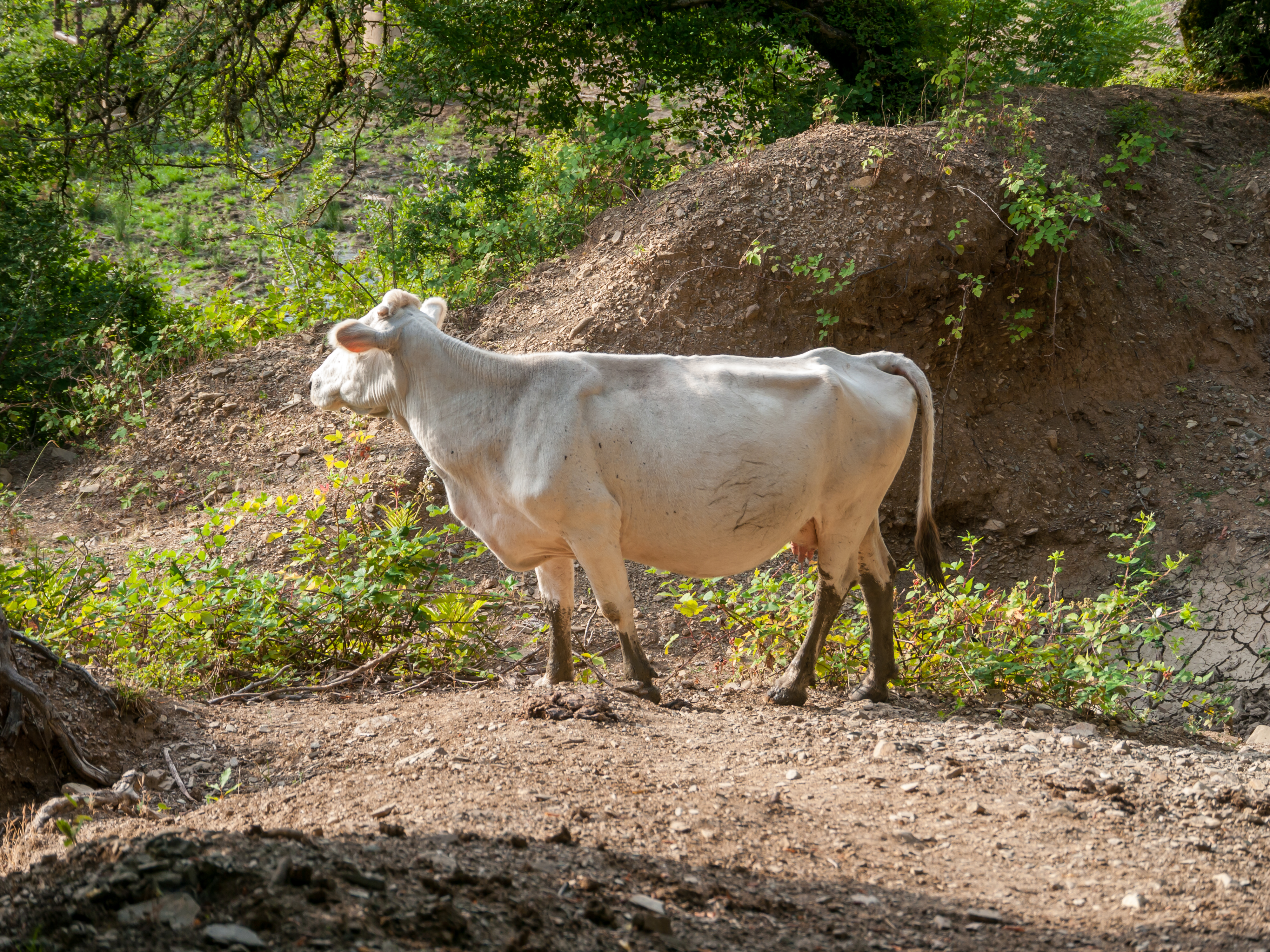 Roaming cow near Oghuz, Azerbaijan